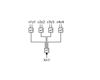 4-bit digital comparator